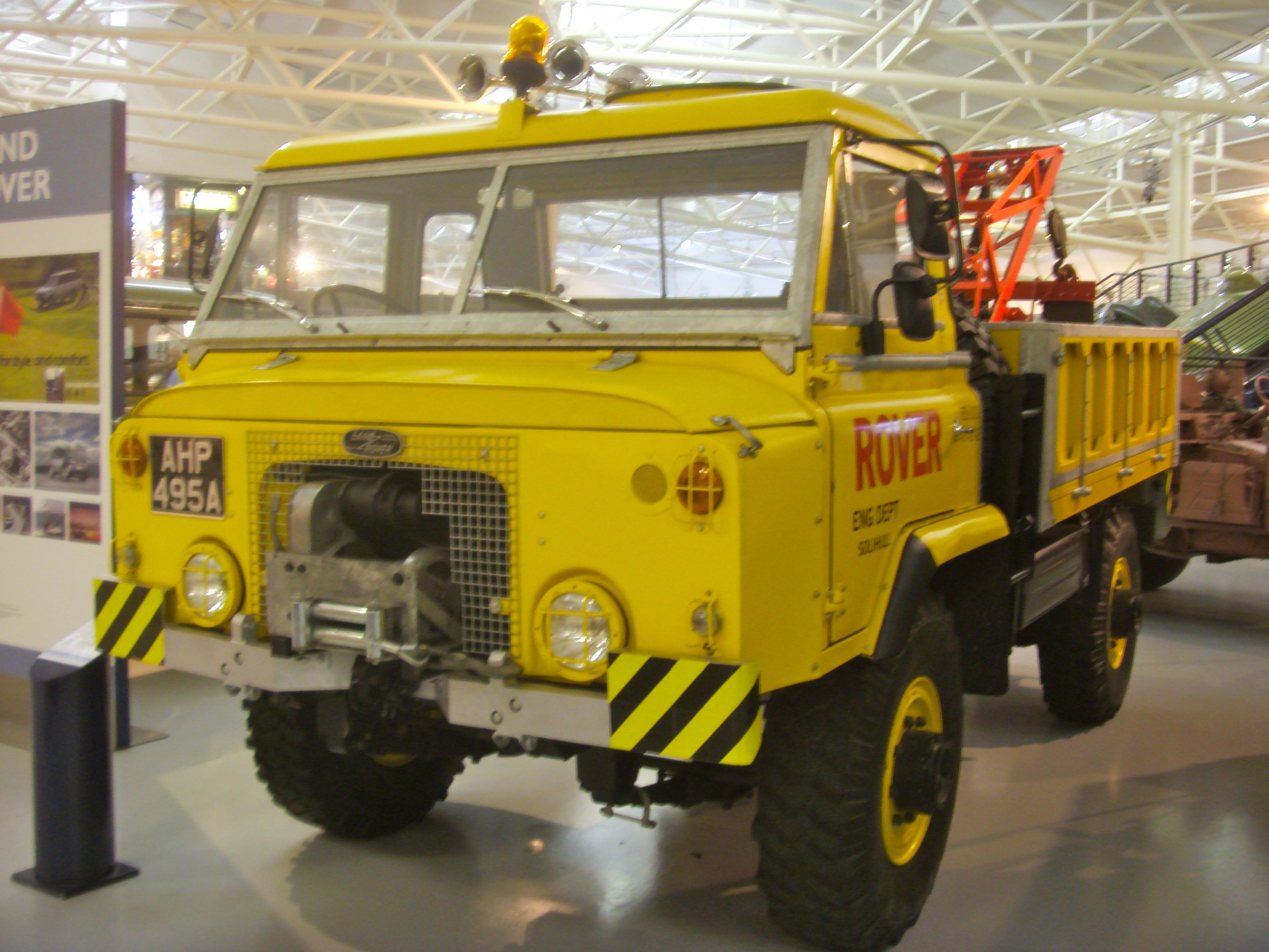 1963 Land Rover 112" Recovery Wagon